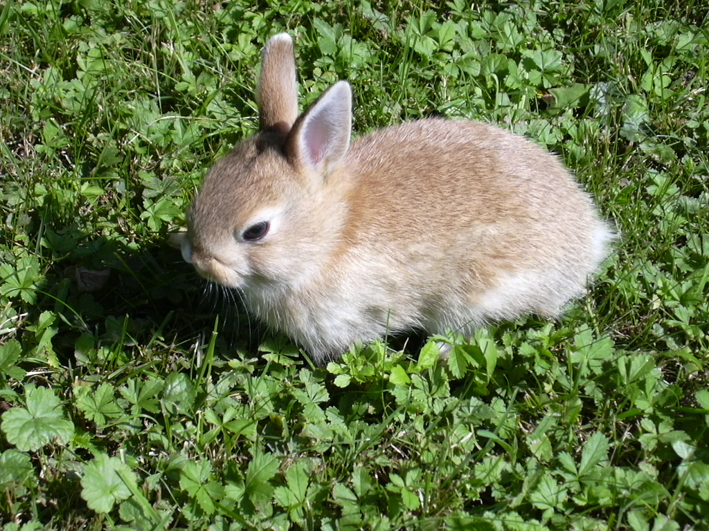 Rabbit, small species